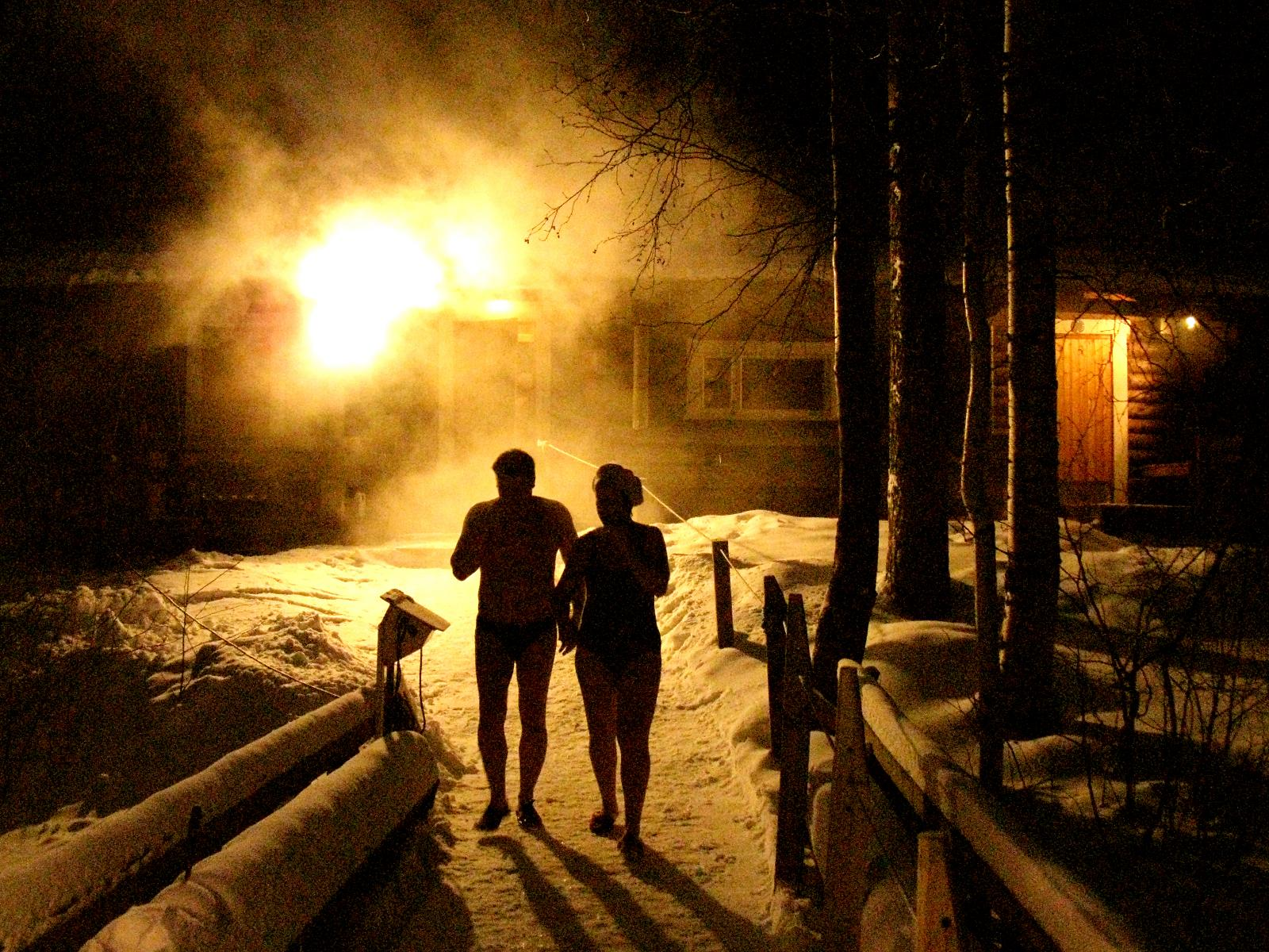 A couple is walking from the sauna to an ice hole in a watercourse, where they intend to take a cold bath.